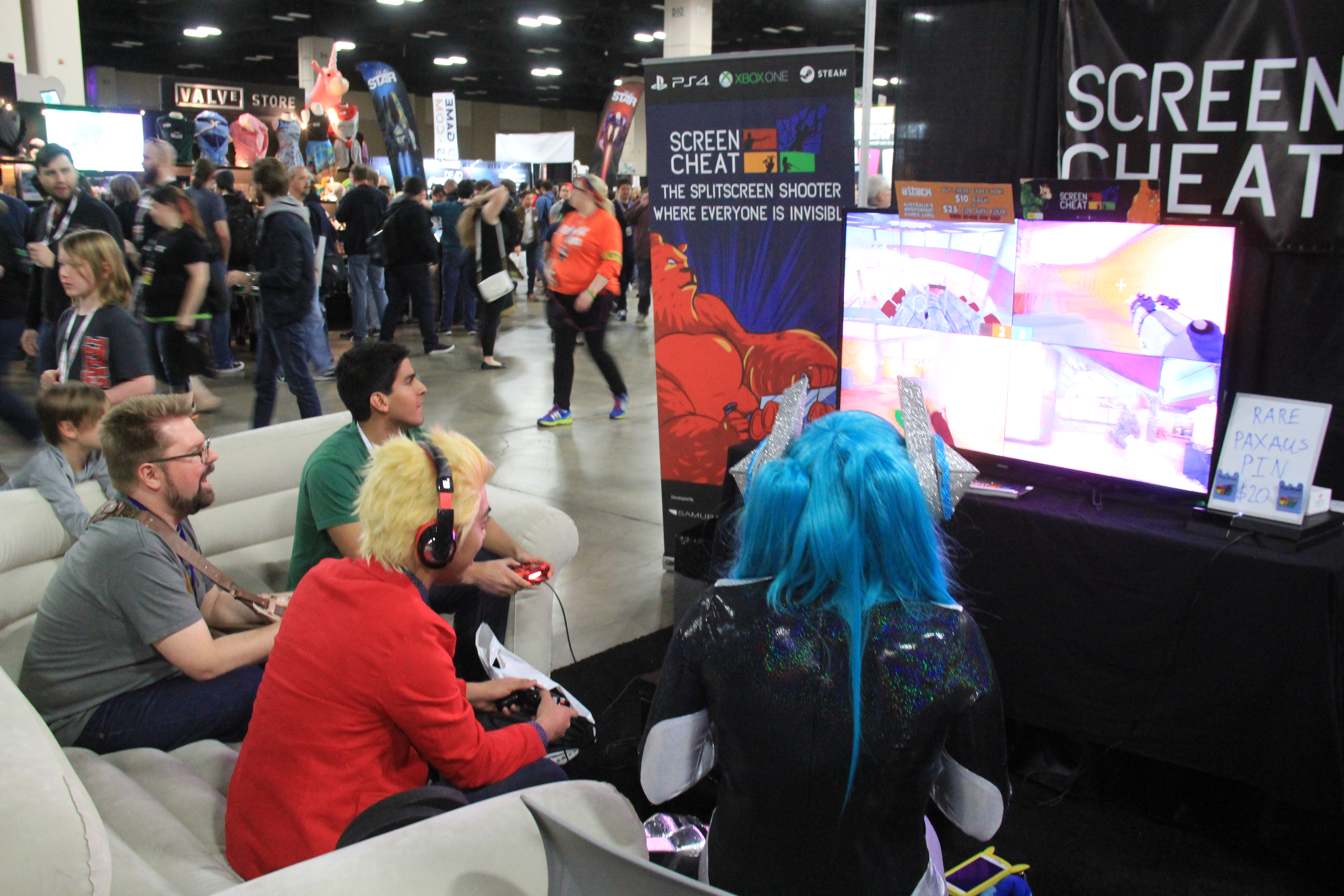 IMG_5498 Taken at PAX South 2016.